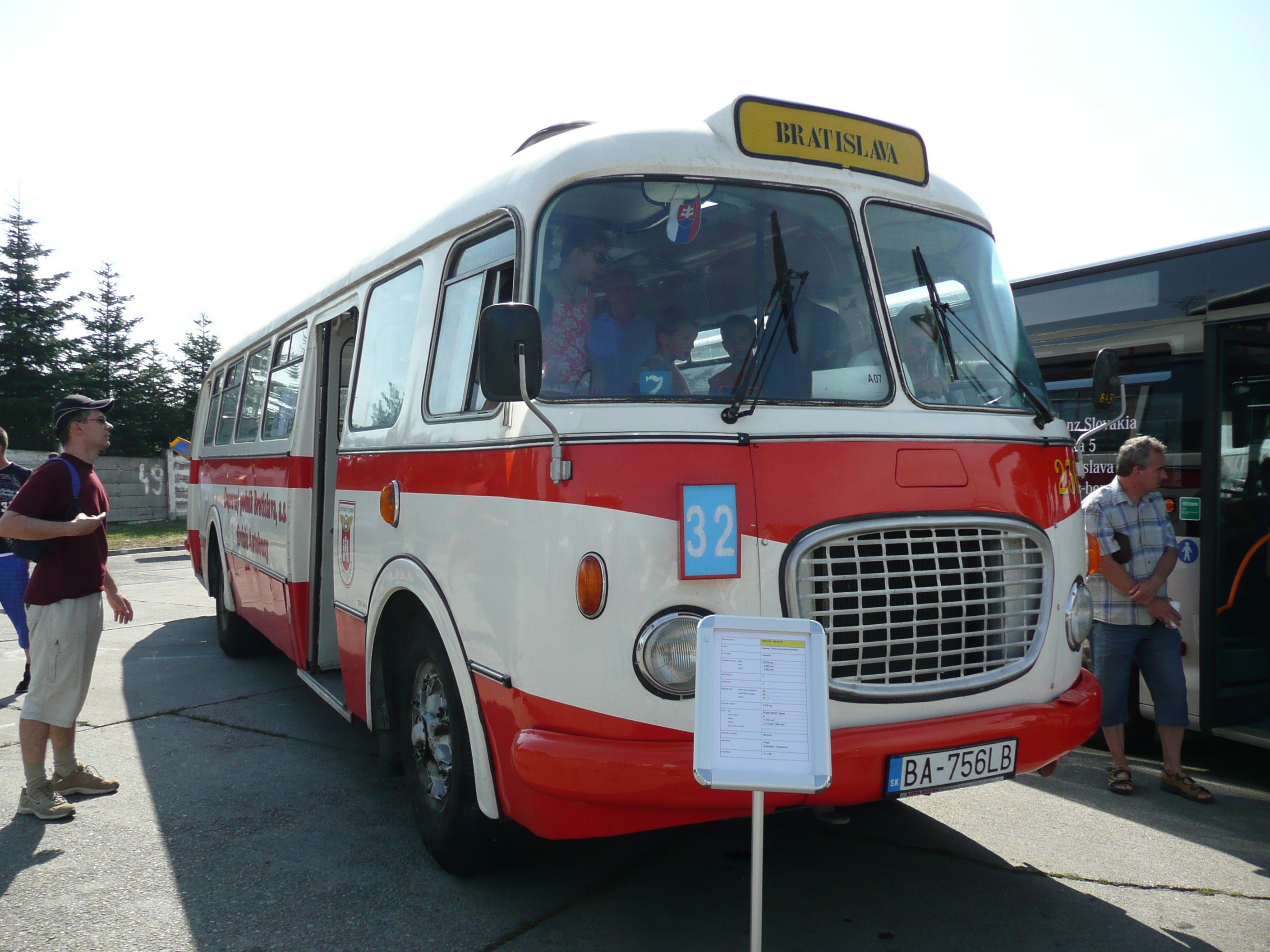 Škoda 706 RTO MTZ